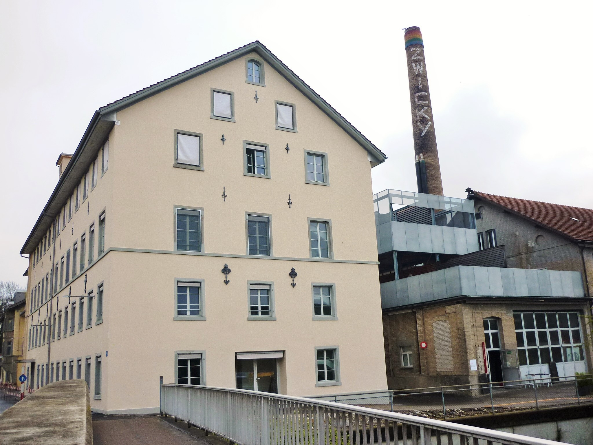 Fabrikanlage Neugut Zwicky, Fabrikgebäude von 1865, Wallisellen ZH, Schweiz, ID 06900182